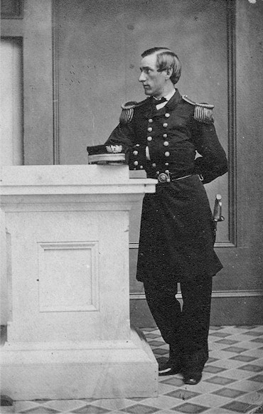 Samuel W. Preston (1840 - 1865), U.S. naval officer, for use as a carte de visit. Original print in possession of U.S. Naval Historical Center.